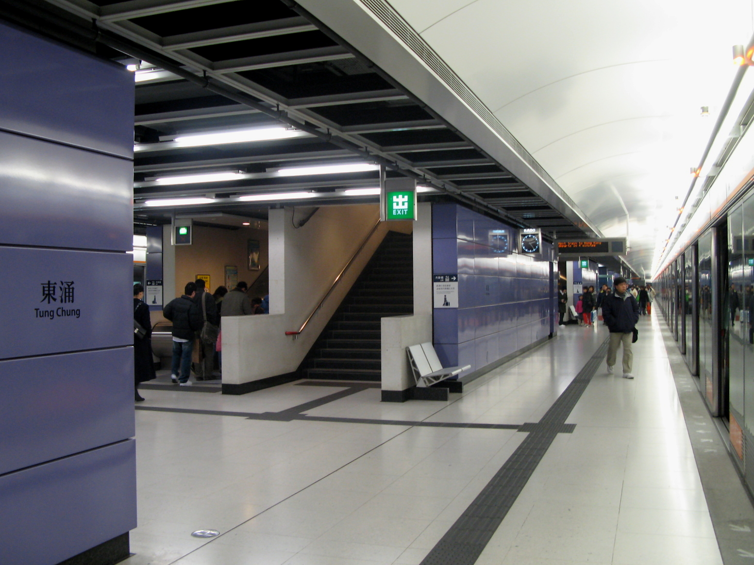 HK MTR Tong Chung Station Platform